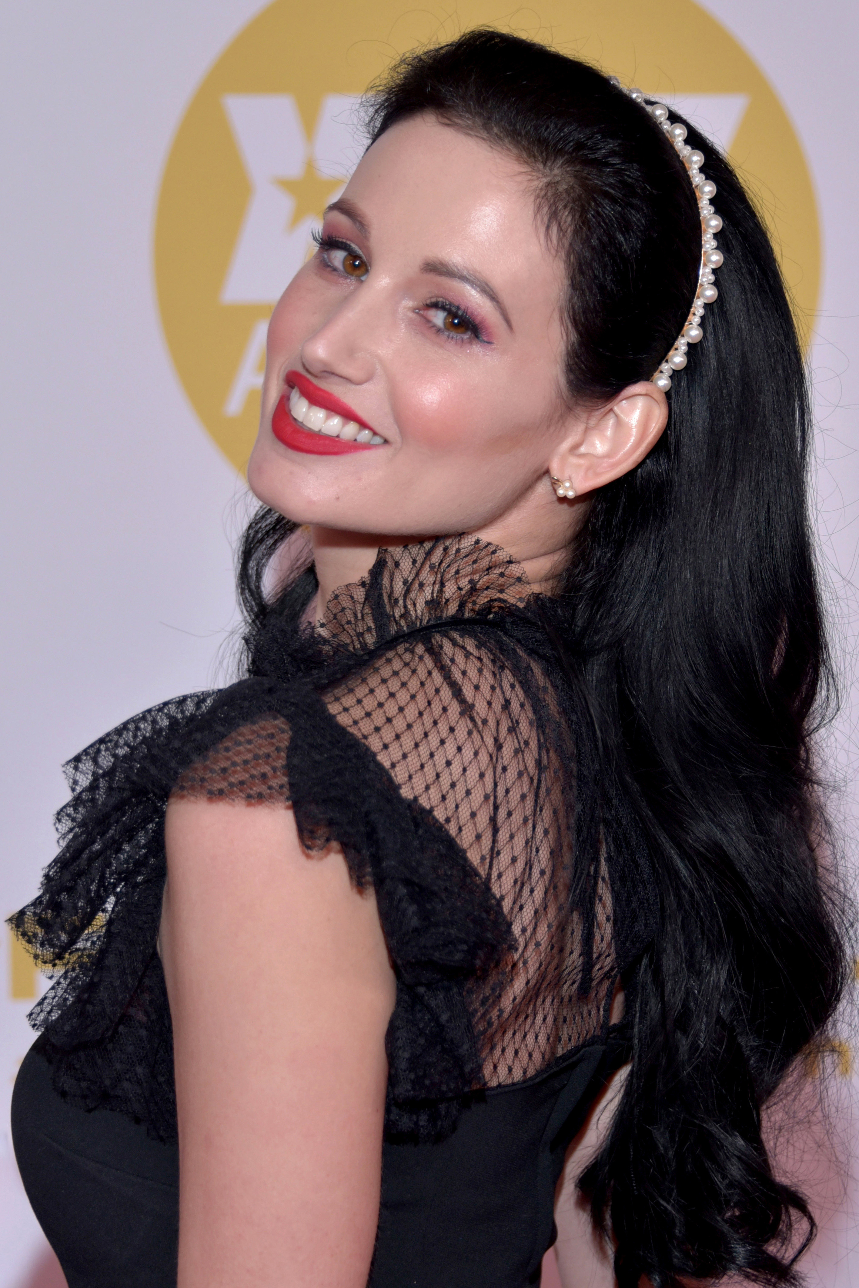 Dr. Amie Harwick attends the XBIZ Awards Show at the J.W. Marriott Hotel in Downtown Los Angeles California on January 16, 2020 - Photo by Glenn Francis of